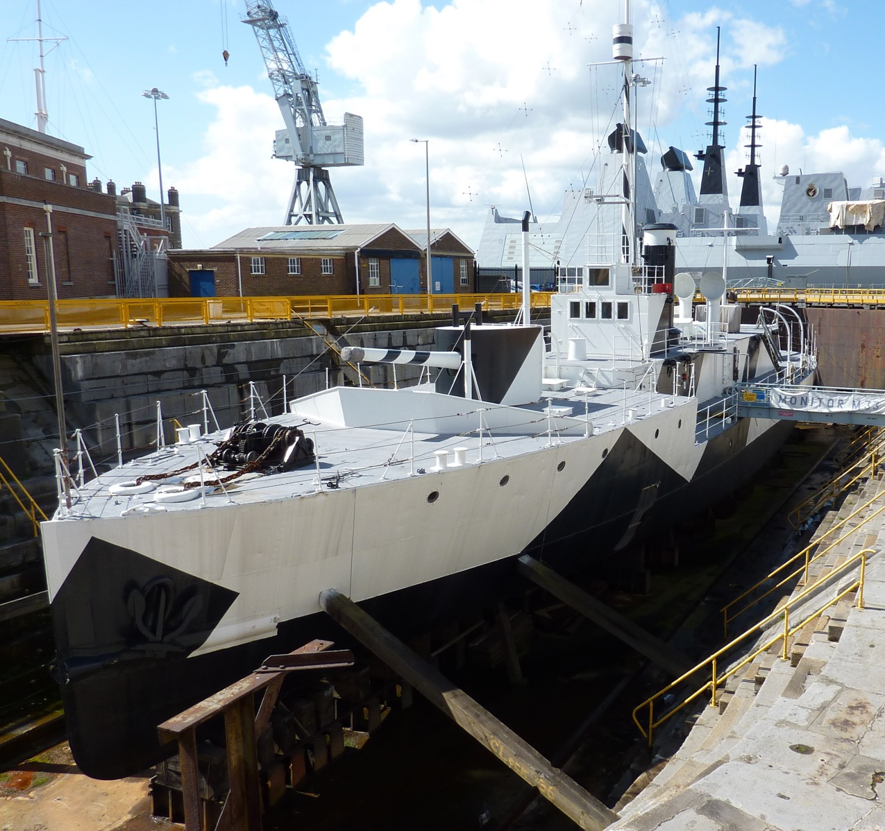 HMS M33 (sometimes "HMS Monitor M33") is a First World War British naval ship currently being restored in dry dock in Portsmouth, England. It was of the Monitor type, designed for riverine, estuarine or littoral work, with shallow draught and very heavy guns. It saw service in Gallipoli, and later in northern Russia. It has been painted in dazzle camouflage.